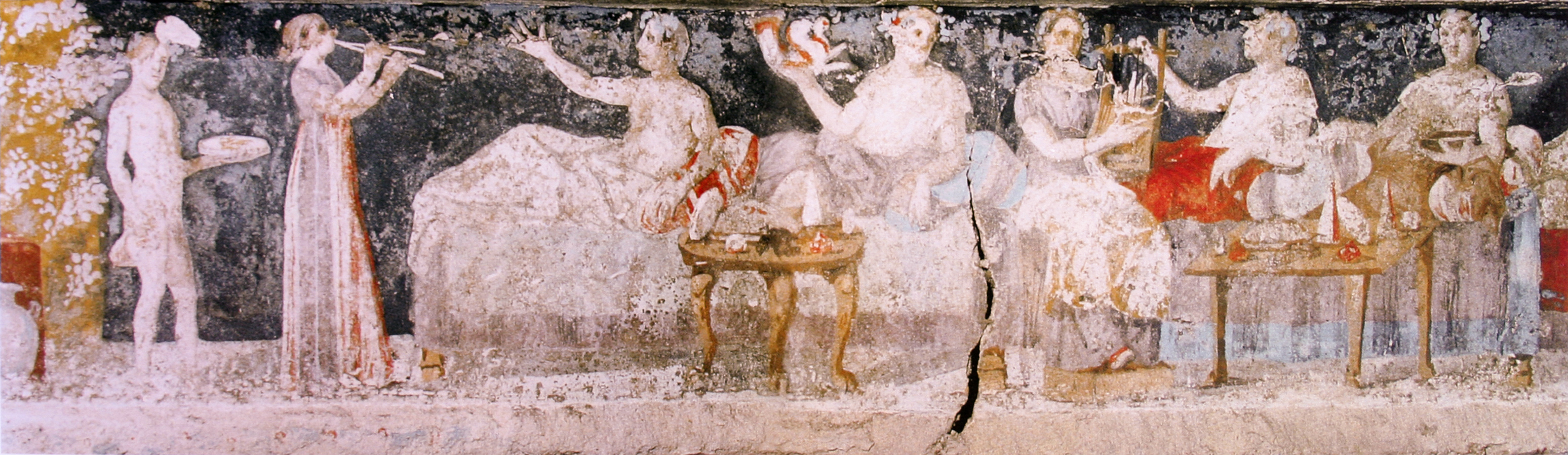 The Banquet, tomb of Agios Athanasios, near Thessaloniki, Greece. Wall painting. Height : 35 cm. Total length : 3.80 m. Discovered in 1994. For more information, see [1].